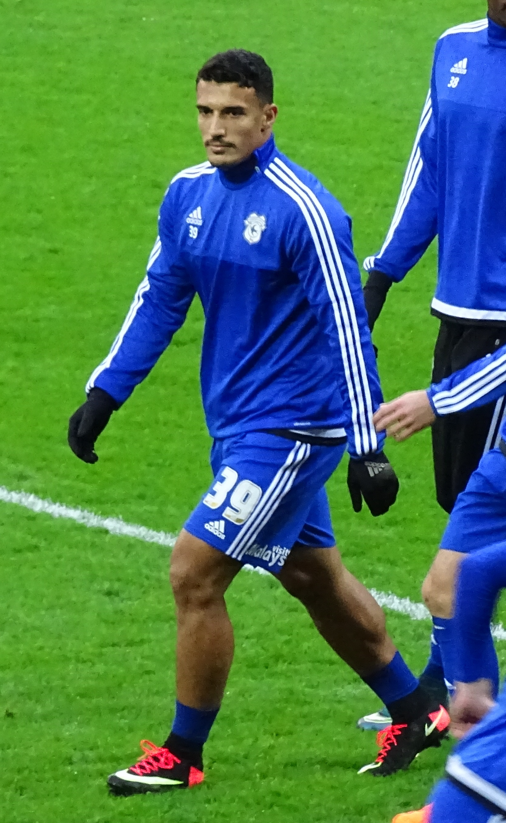 Football Idriss Saadi playing for Cardiff City in 2015.